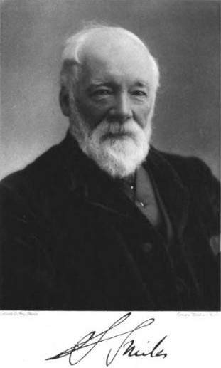 Photograph of Samuel Smiles the author, the frontispiece of The Autobiography of Samuel Smiles, LLD